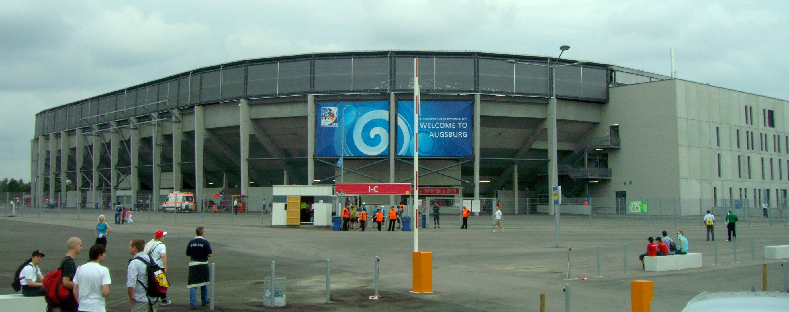 Impuls Arena as “FIFA Women's World Cup Stadium Augsburg” at 2010 FIFA U-20 Women's World Cup from NorthEast